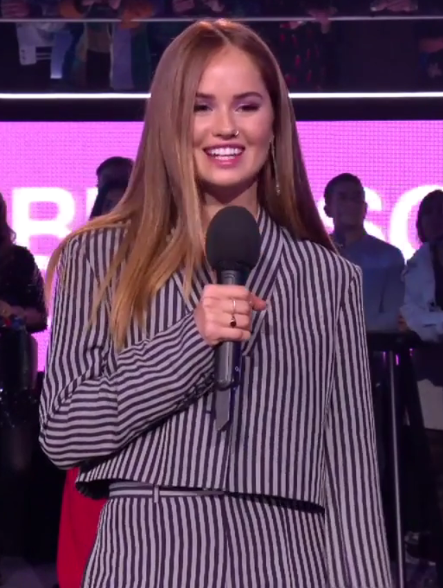 Debby Ryan presenting at MTV EMAs 2018